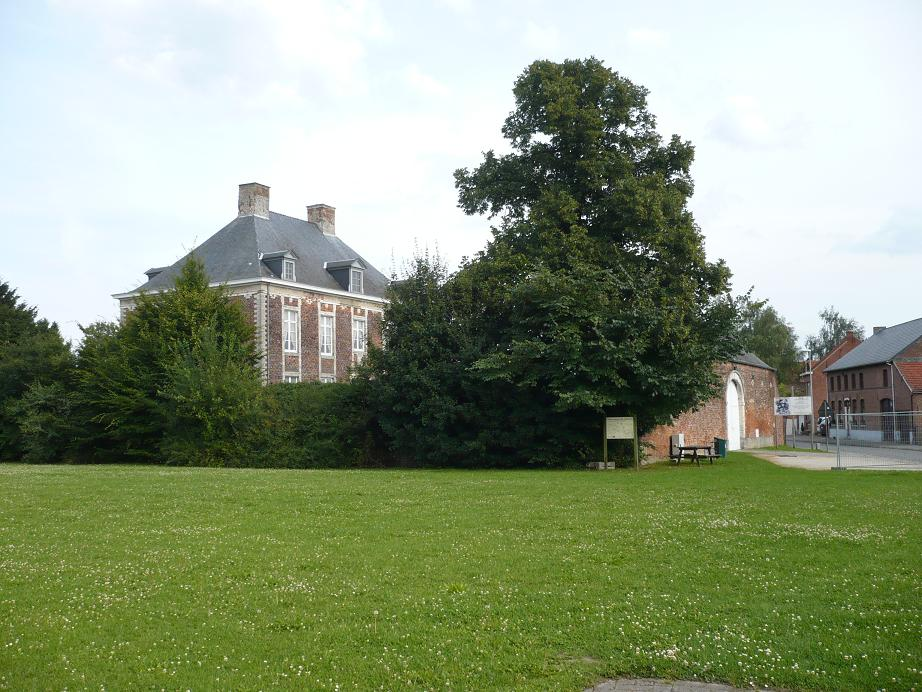 Parish buildings of Wakkerzeel, Flanders